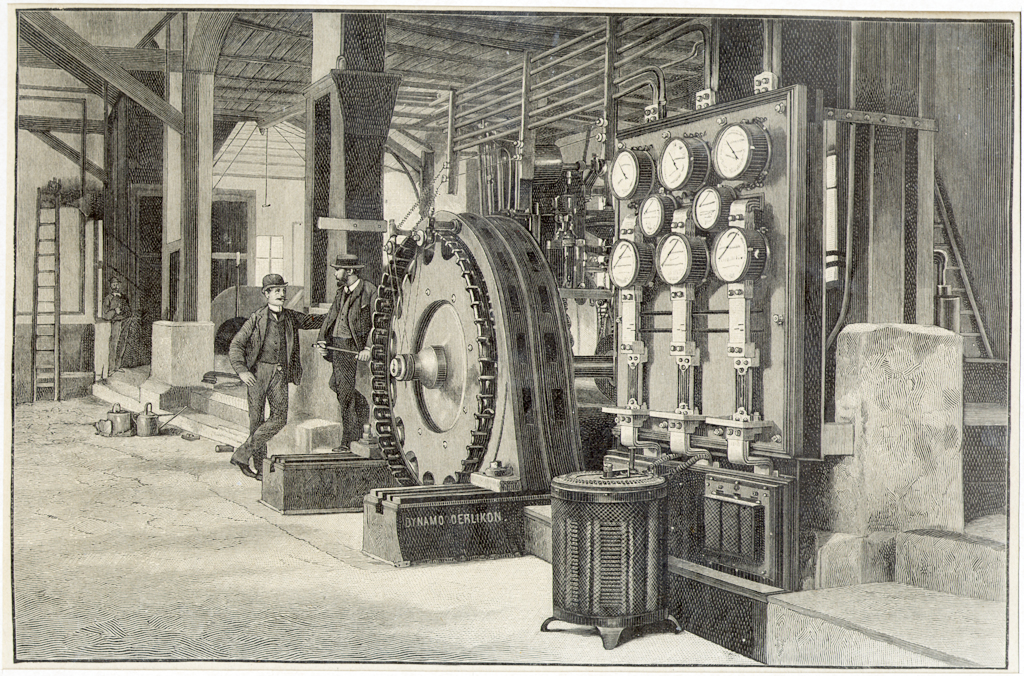 At the centre is the new three phase dynamo, constructed for the exhibition